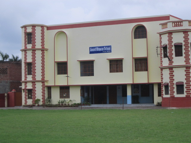 Anand Bhawan School, ICSE wing, Dewa Road, Barabanki.